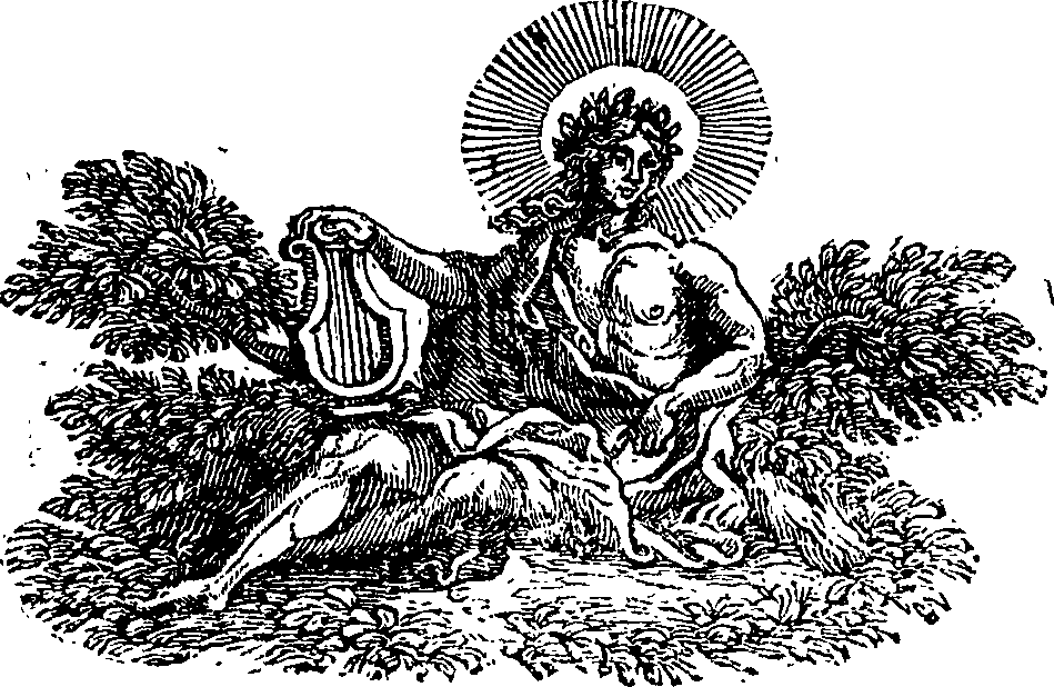 Fleuron from book: The idylliums of Moschus and Bion, Translated from the Greek. With Annotations. To which is prefixed, An Account of their Lives; with some Remarks on their Works; and some Observations upon Pastoral. By Mr. Cooke.